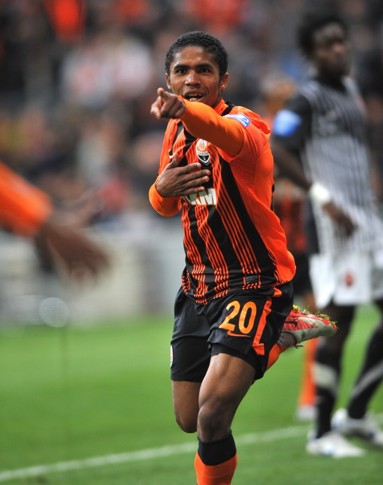 Douglas costa of players of Shakhtar